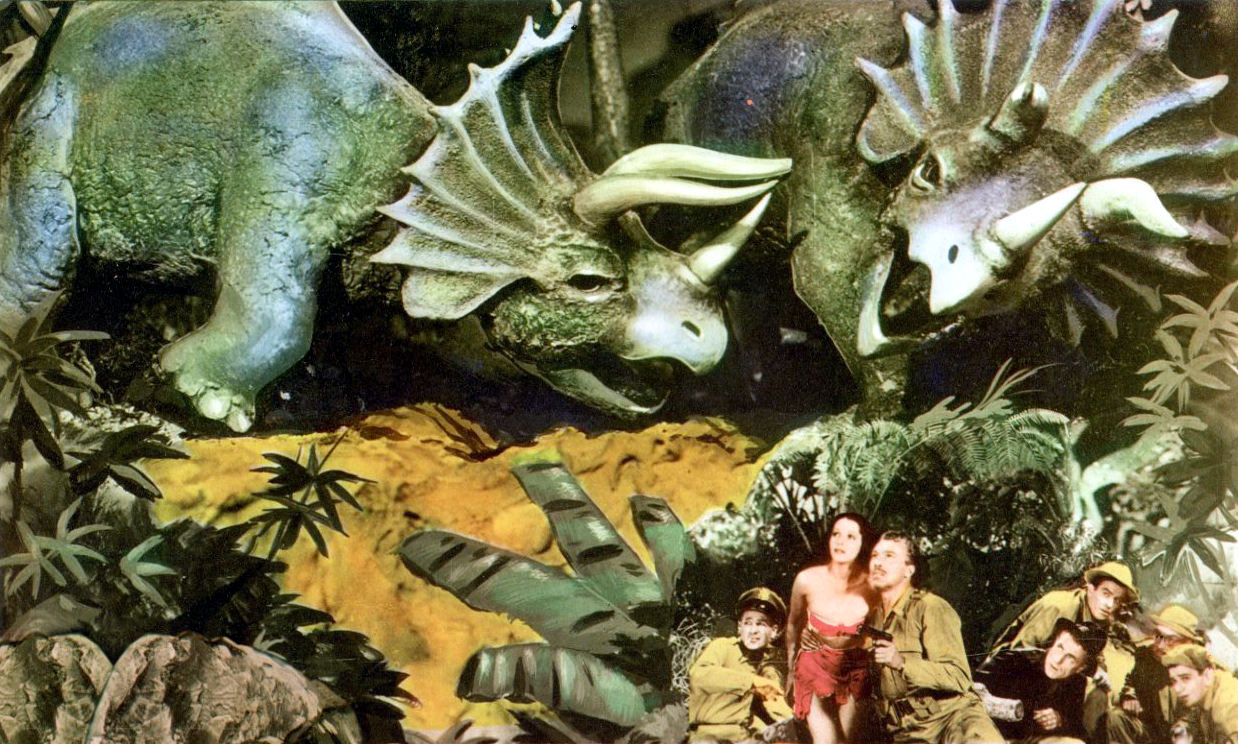 Cropped and edited lobby card for Lost Continent (Lippert Pictures, 1951). Image is assumed to be in the public domain as no copyright notice is in evidence.